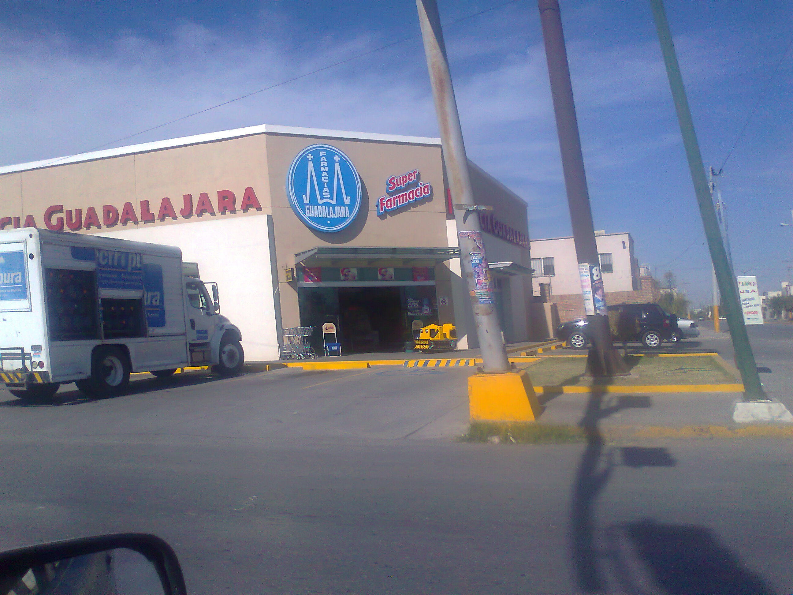 Farmacias Guadalajara branch in Gomez Morin Avenue in Torreon, Mexico.